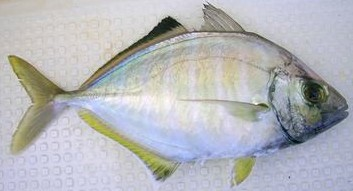 Carangoides equula from Fiji